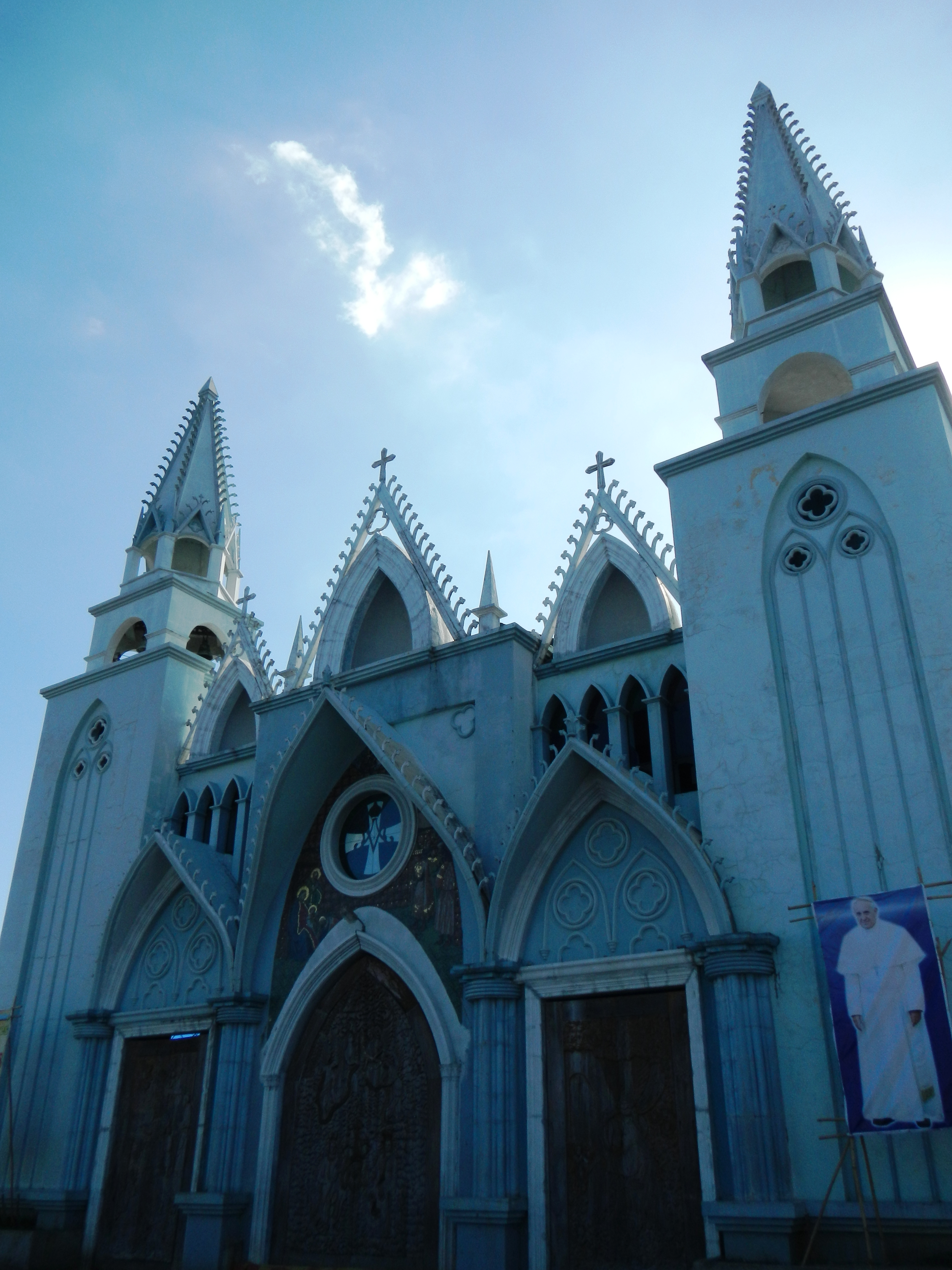 Hagonoy, Bulacan Barangay Santo Rosario, Hagonoy, Bulacan - Hagonoy River by the Bay Walk in front of the Heritage Roman Catholic Diocese of Malolos, Vicariate of St. Anne 0ur Lady of the Most Holy Rosary Parish Church Parish Priest, Fr. Virgilio Cruz.